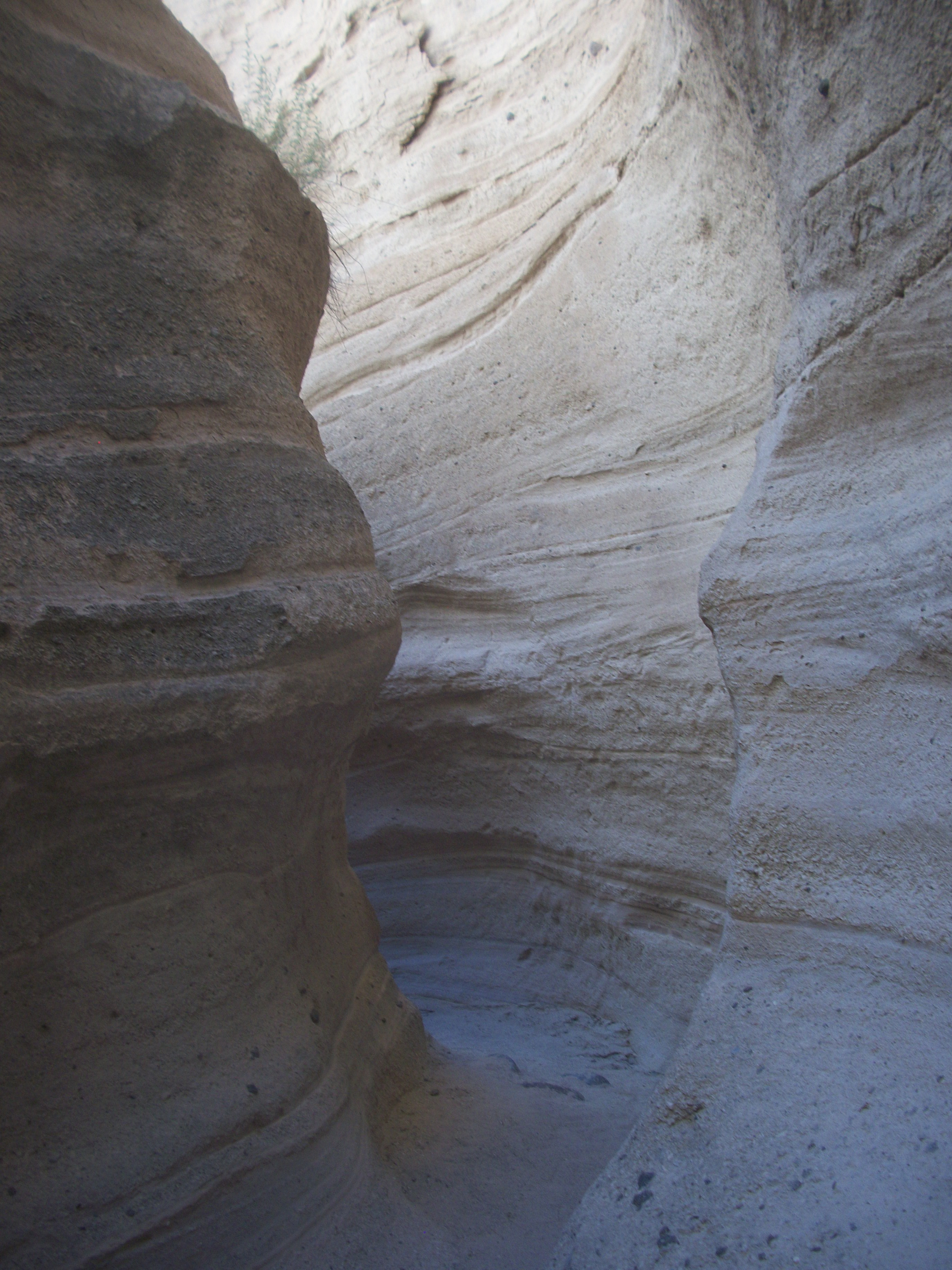 Kasha Katuwe National Monument slot canyon.